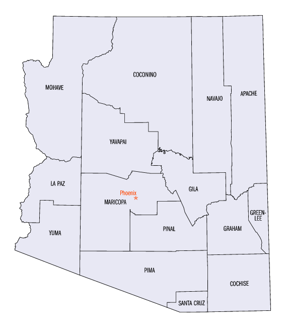 Arizona County Map Image source - [1] Was originally a gif. Converted to Az_county_map.png format. is a known public domain image resources. Image size 568 x 649px Disksize 15KB Category:Arizona maps